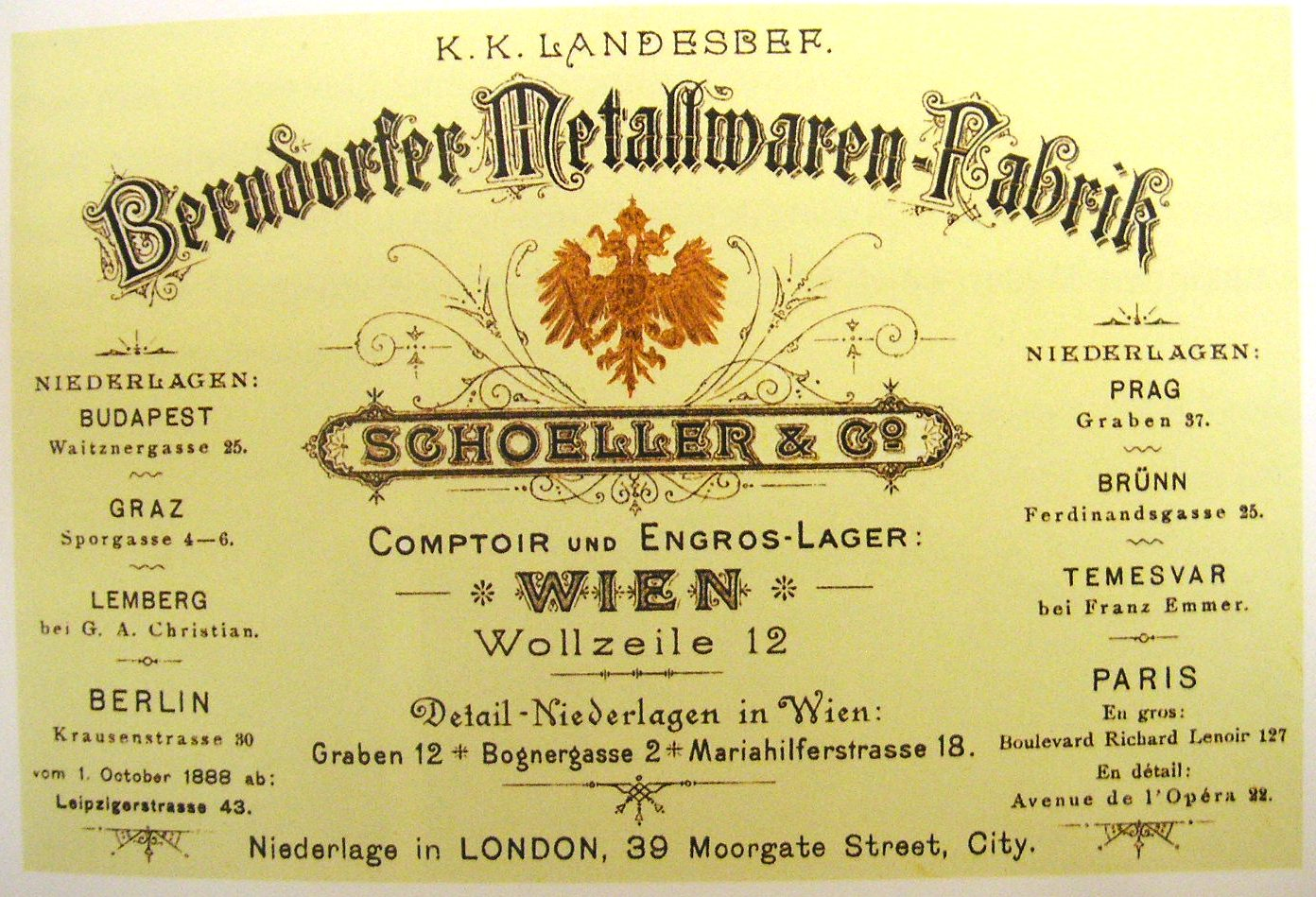 Berndorf company products, at the showcase shop at Wollzeile in Vienna.